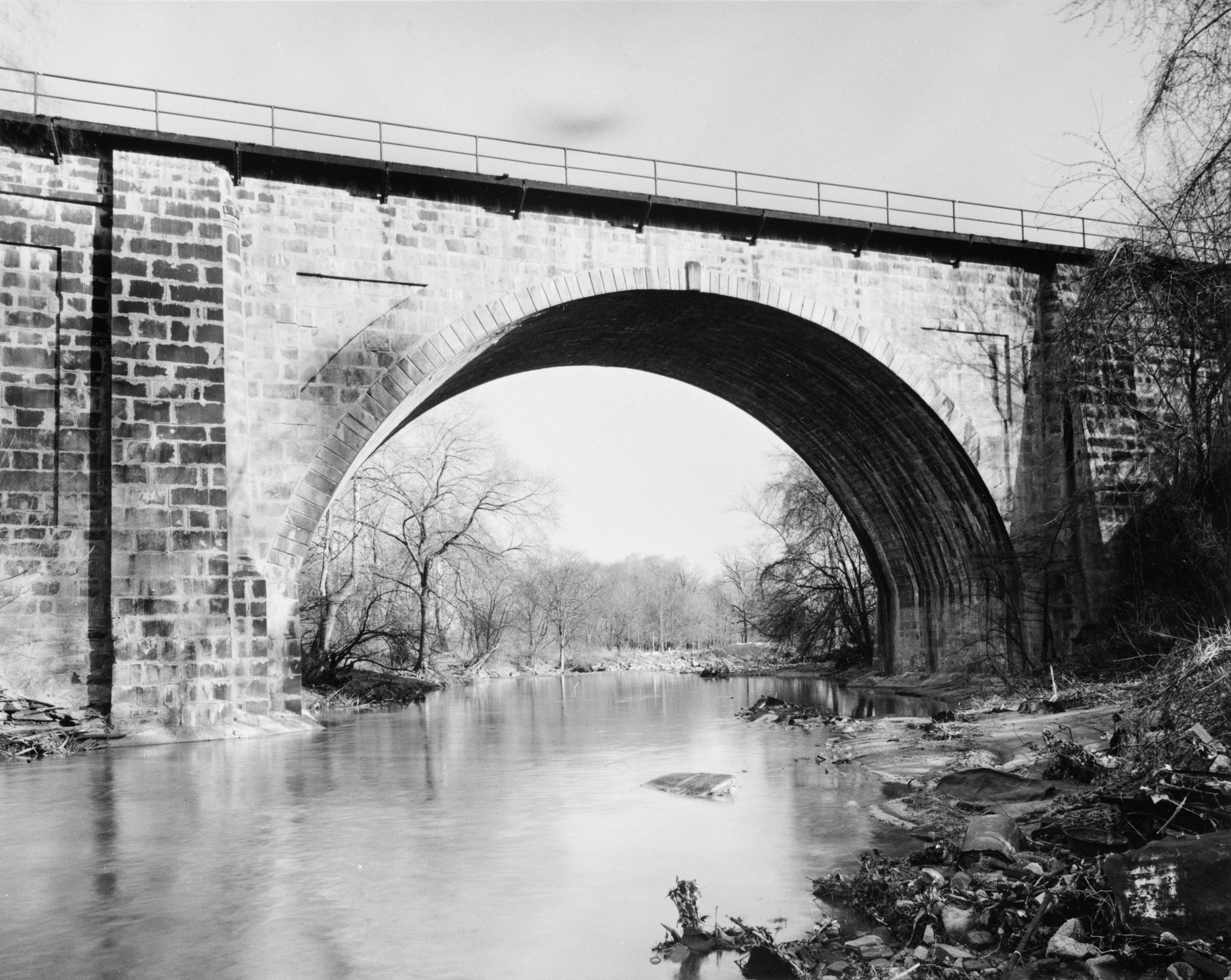 View of west side of Carrollton Viaduct in Baltimore, Maryland. Completed in 1829 by Baltimore and Ohio Railroad. Image cropped.